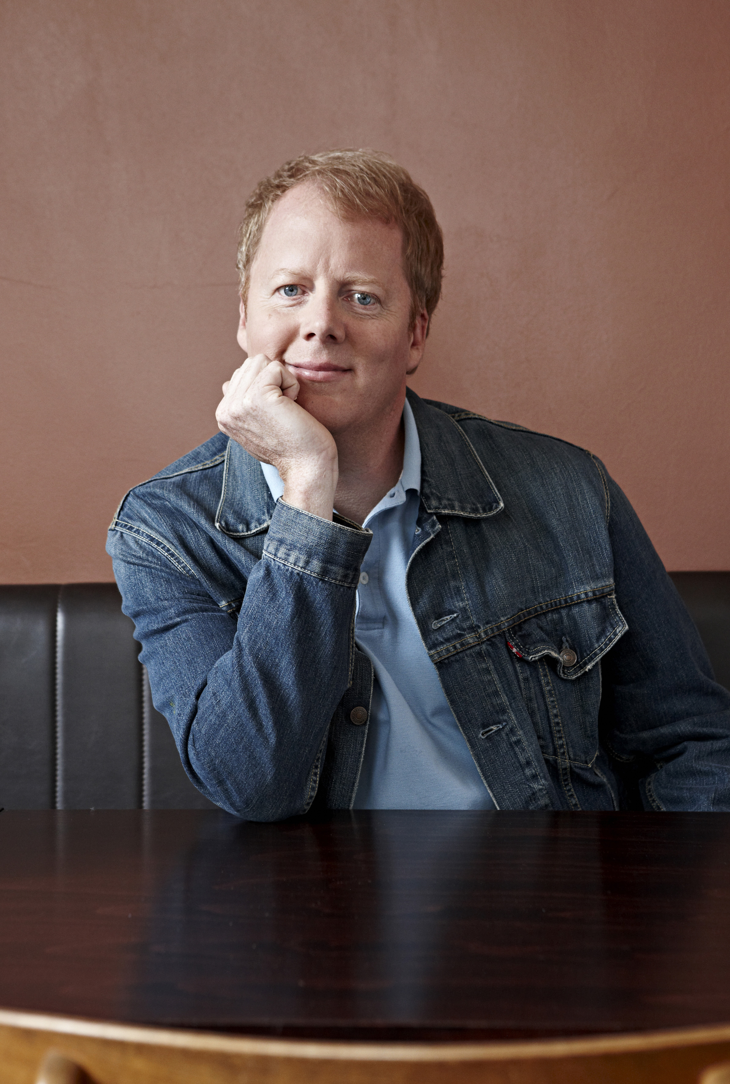 Comedian John Doyle